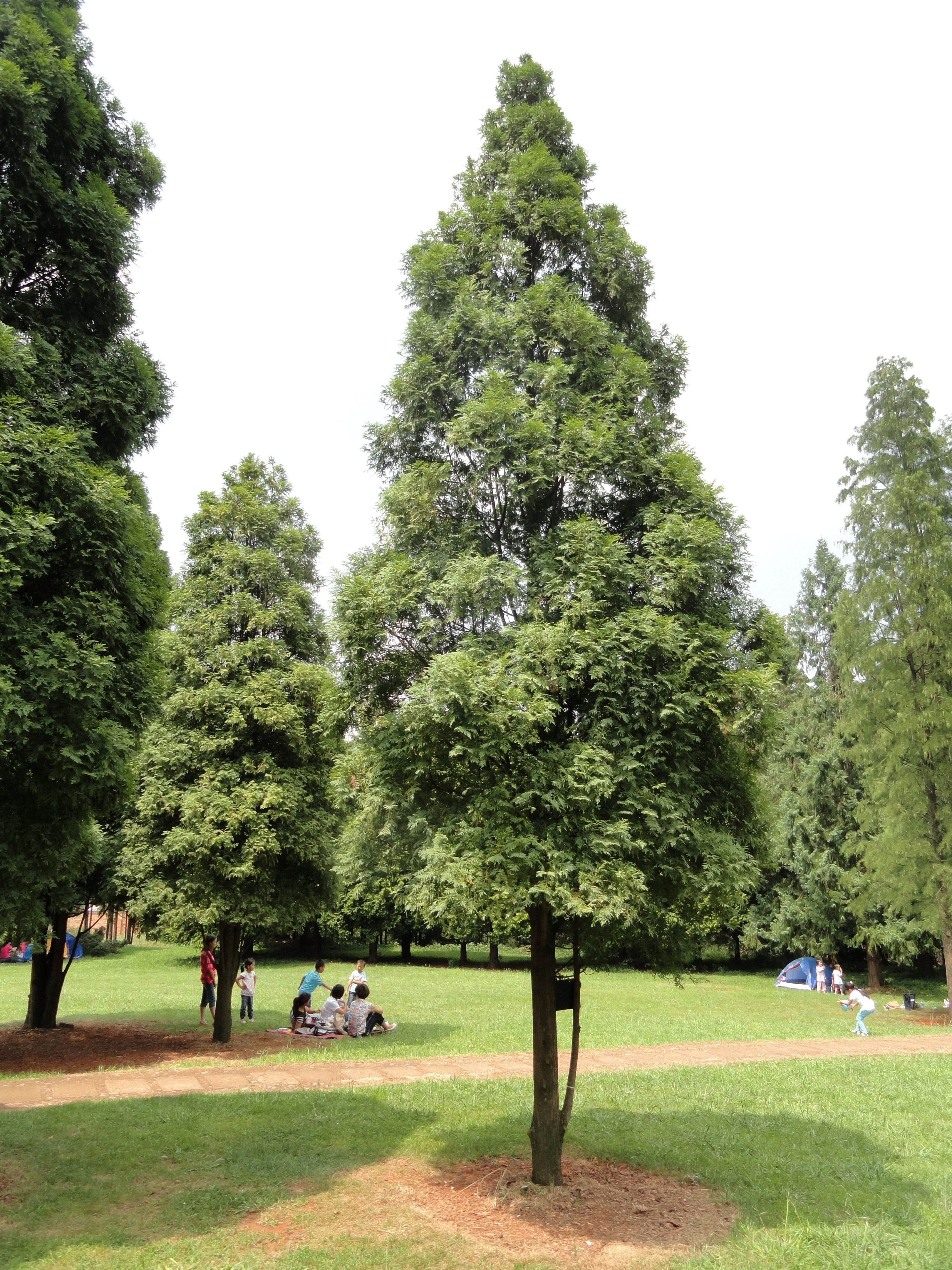 Chamaecyparis hodginsii (syn. Fokienia hodginsii). Plant specimen in the Kunming Botanical Garden, Kunming, Yunnan, China.